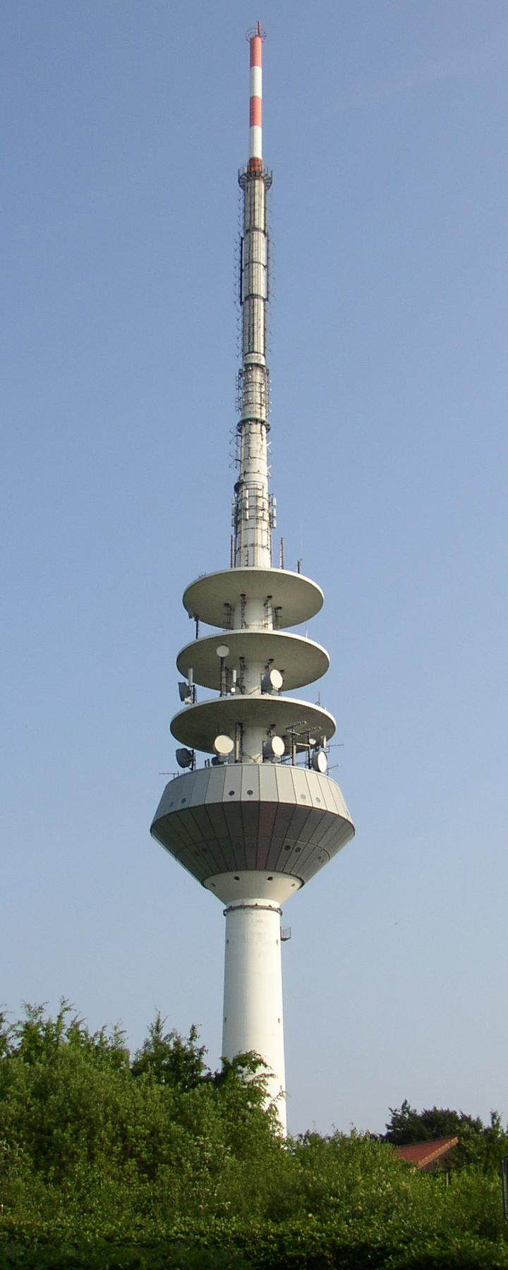 Transmitter in Rosengarten-Emsen in Lower Saxony, Germany